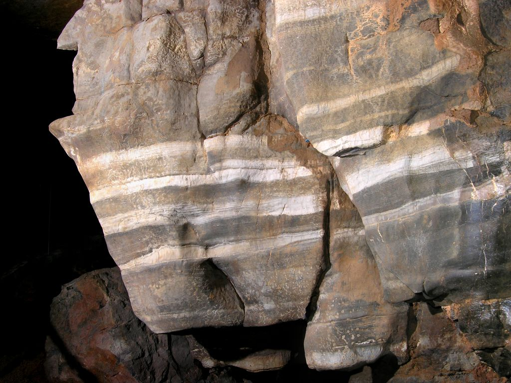 Gutenstein Limestone in the Baradla Cave